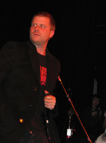 El-P @ Irving